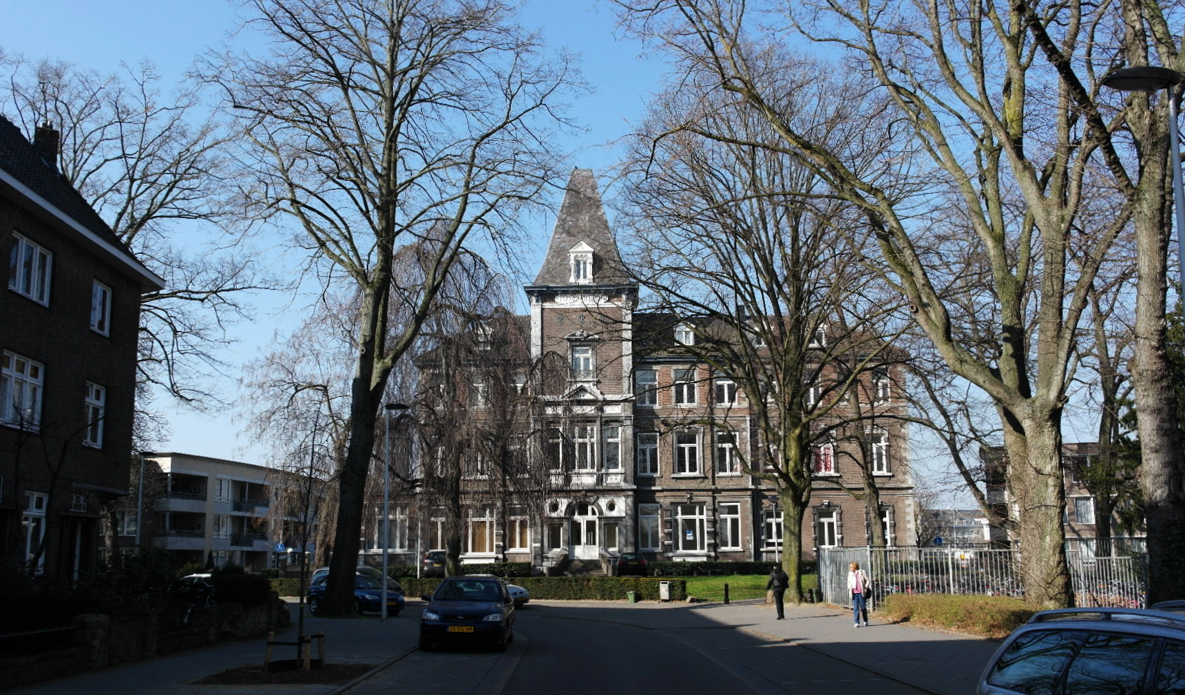 Maastricht, the Netherlands. View of Villa Wyckerveld in Professor Pieter Willemsstraat in the eastern neighbourhood of Wyckerpoort.